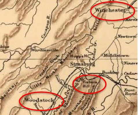 The map shows the area near Fisher's Hill, where the Battle of Fisher's Hill occurred on September 22, 1864. Fisher's Hill and other relevant communities have been circled in red.